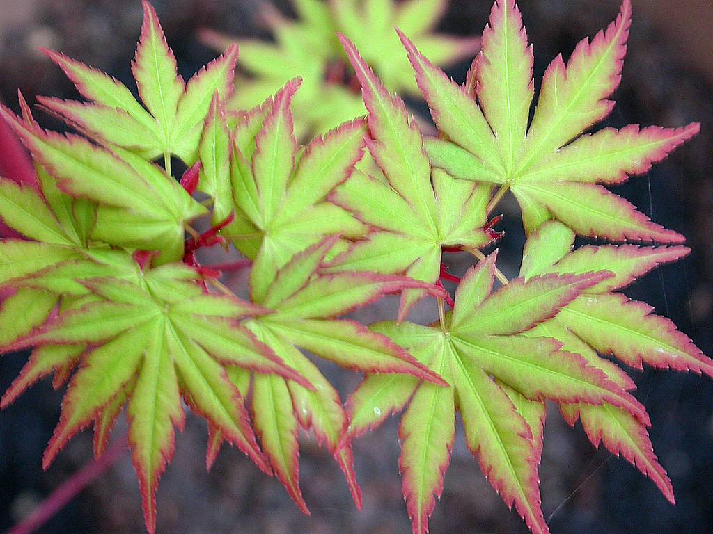 Acer palmatum 'Sango Kaku' — Coral-bark maple. Foliage texture and colors. Cultivar was formerly named 'Senkaki'.